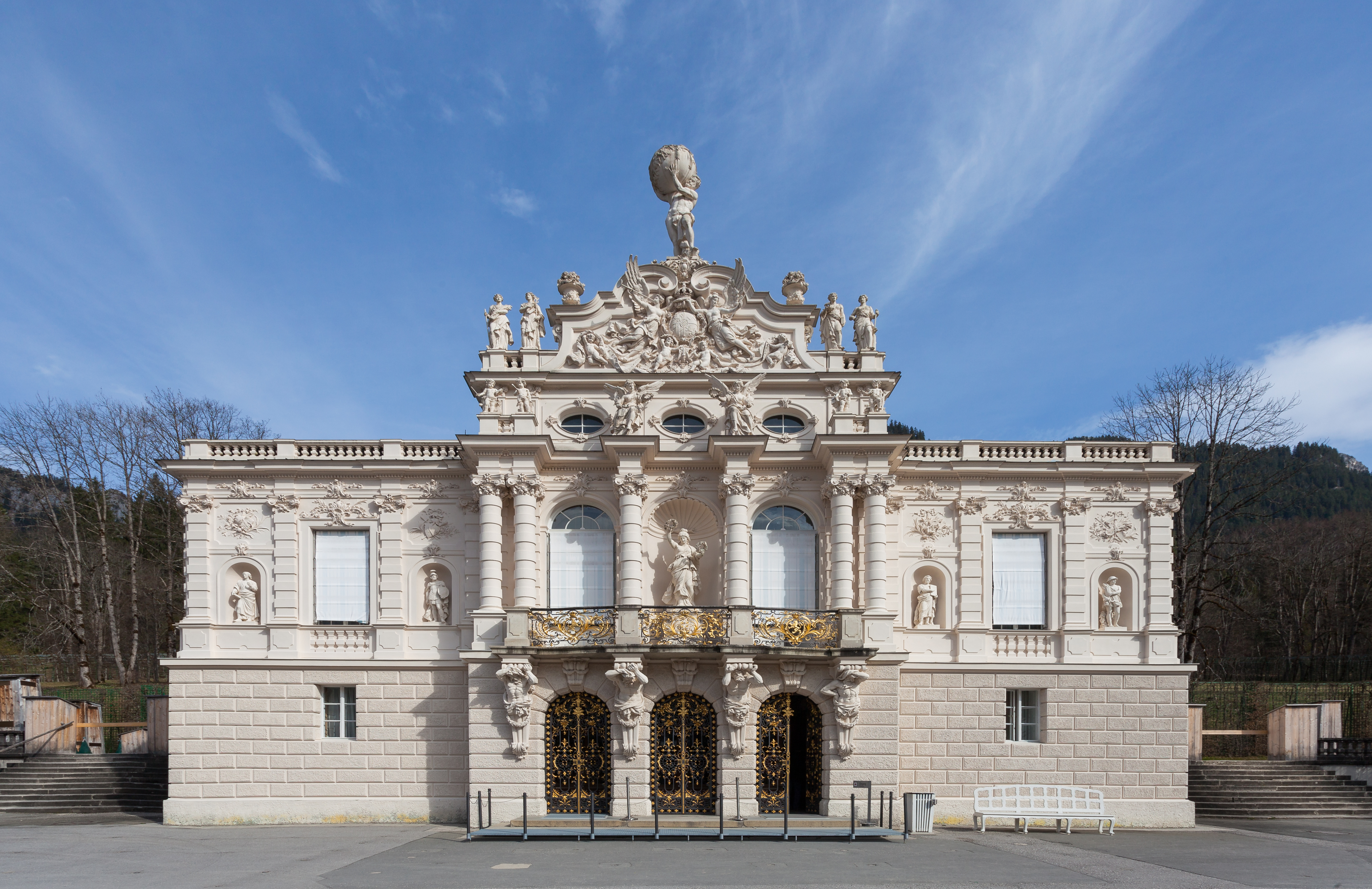 Linderhof Palace, Bavaria, Germany